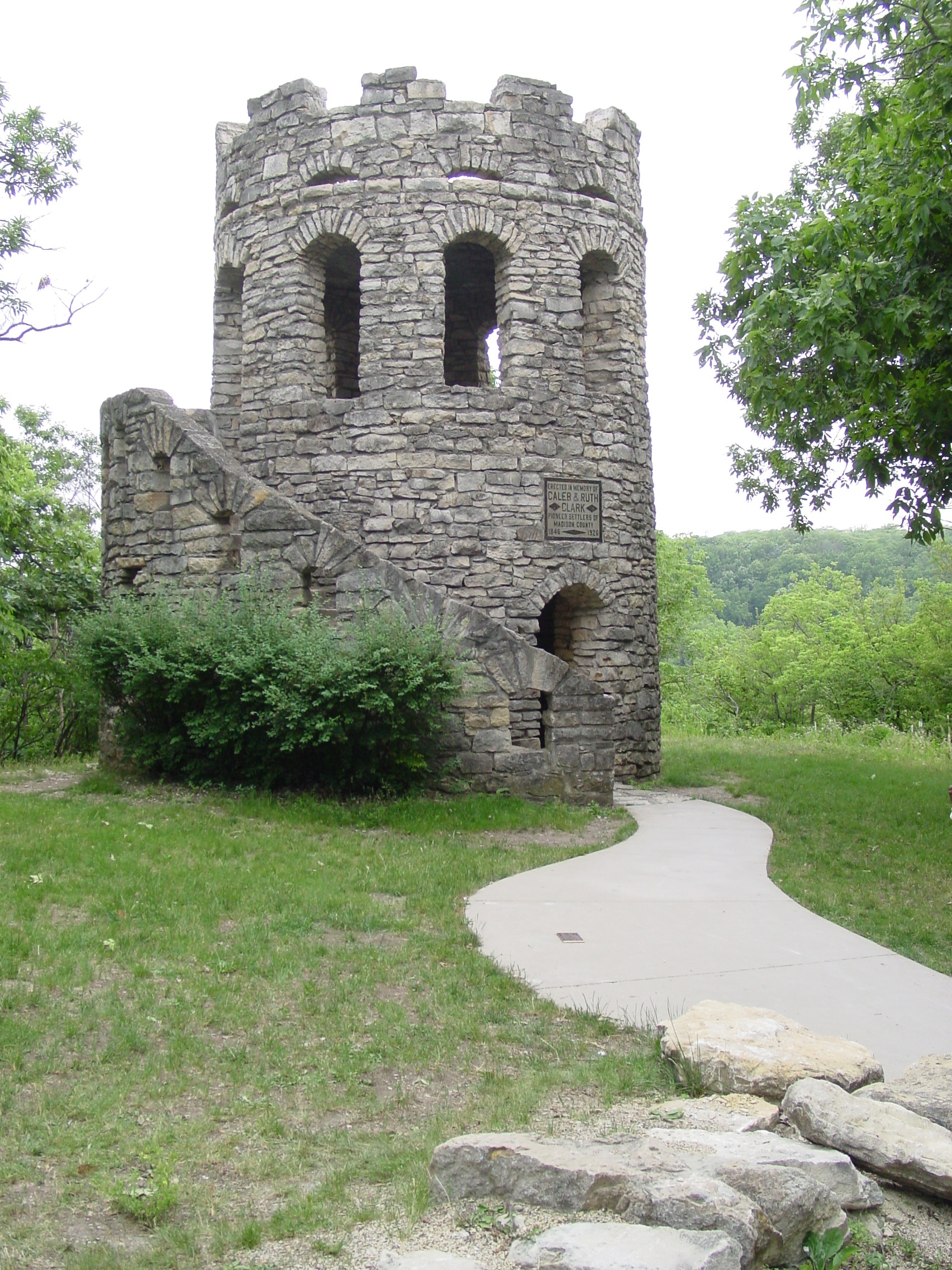 Taken by MadMaxMarchHare. Clark Tower in Winterset, Iowa.